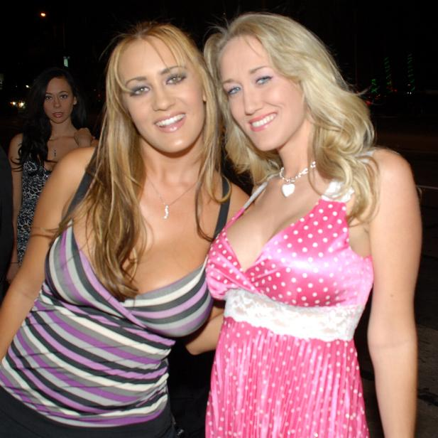 Trina Michaels, Alana Evans at Wicked Pictures party, the House of Blues on Sunset Blvd, September 19, 2007.